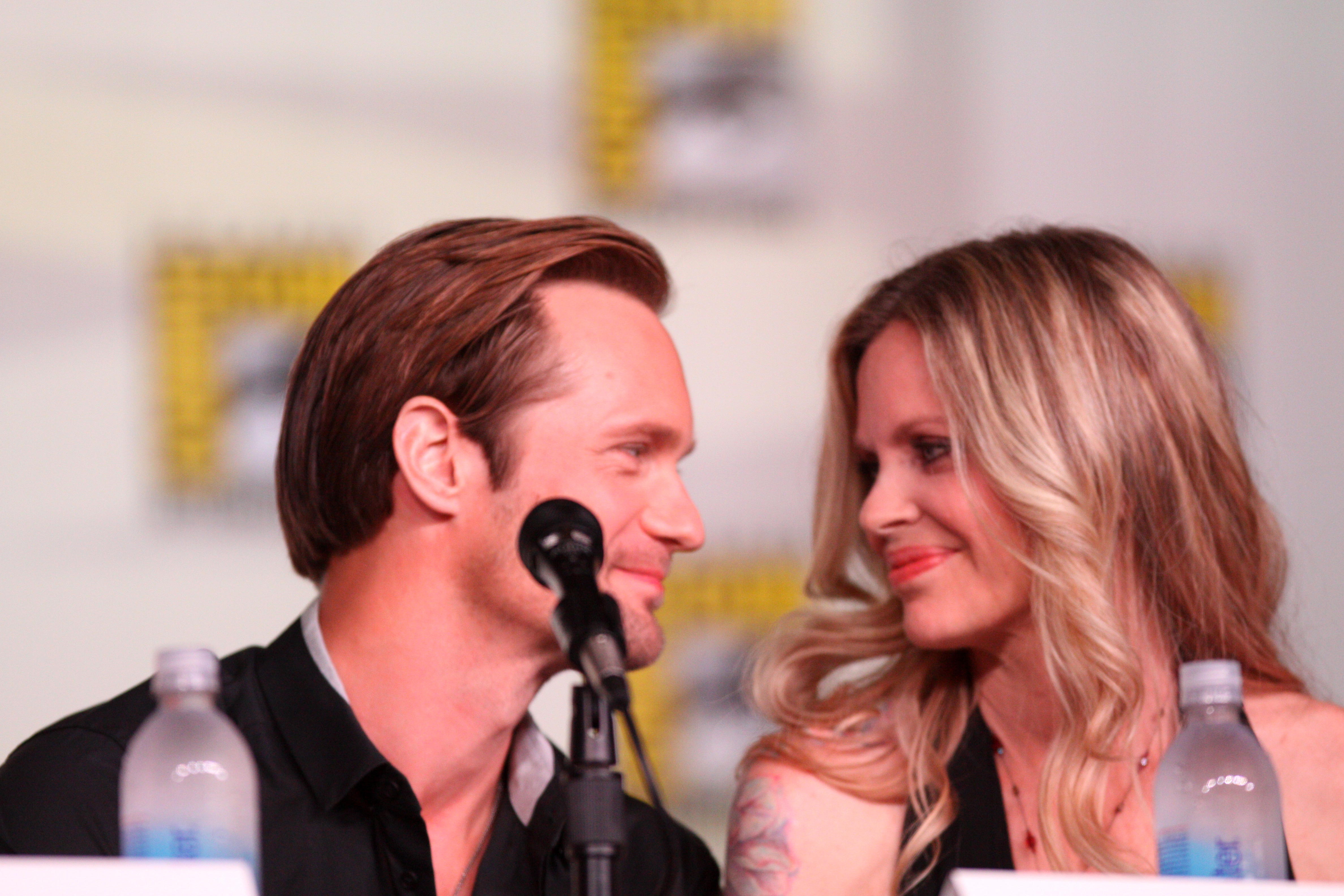 Alexander Skarsgard & Kristin Bauer van Straten speaking at the 2012 San Diego Comic-Con International in San Diego, California.